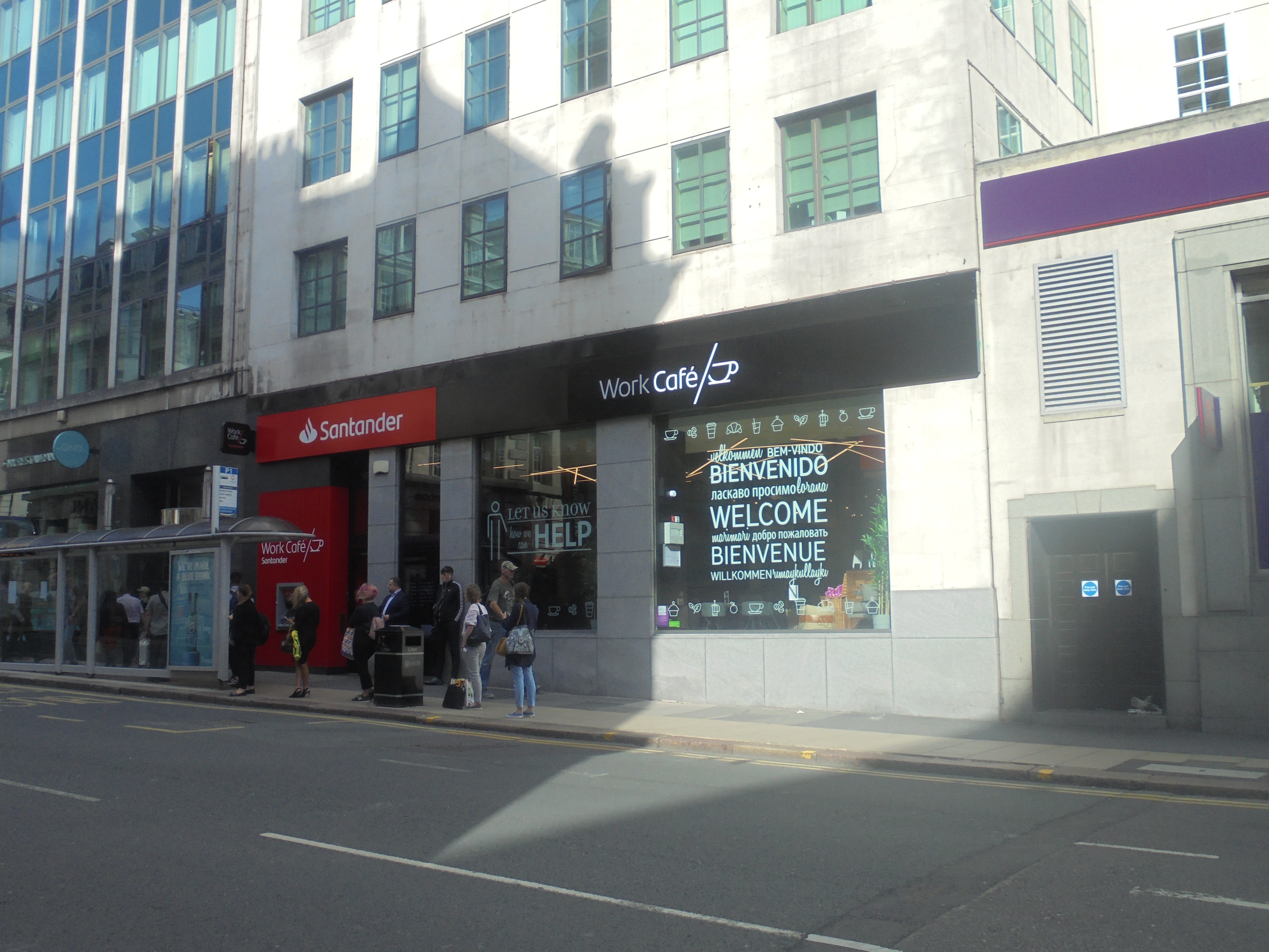 Santander Work Café, Park Row, Leeds, West Yorkshire. Taken on the afternoon of Thursday the 29th of August 2019.